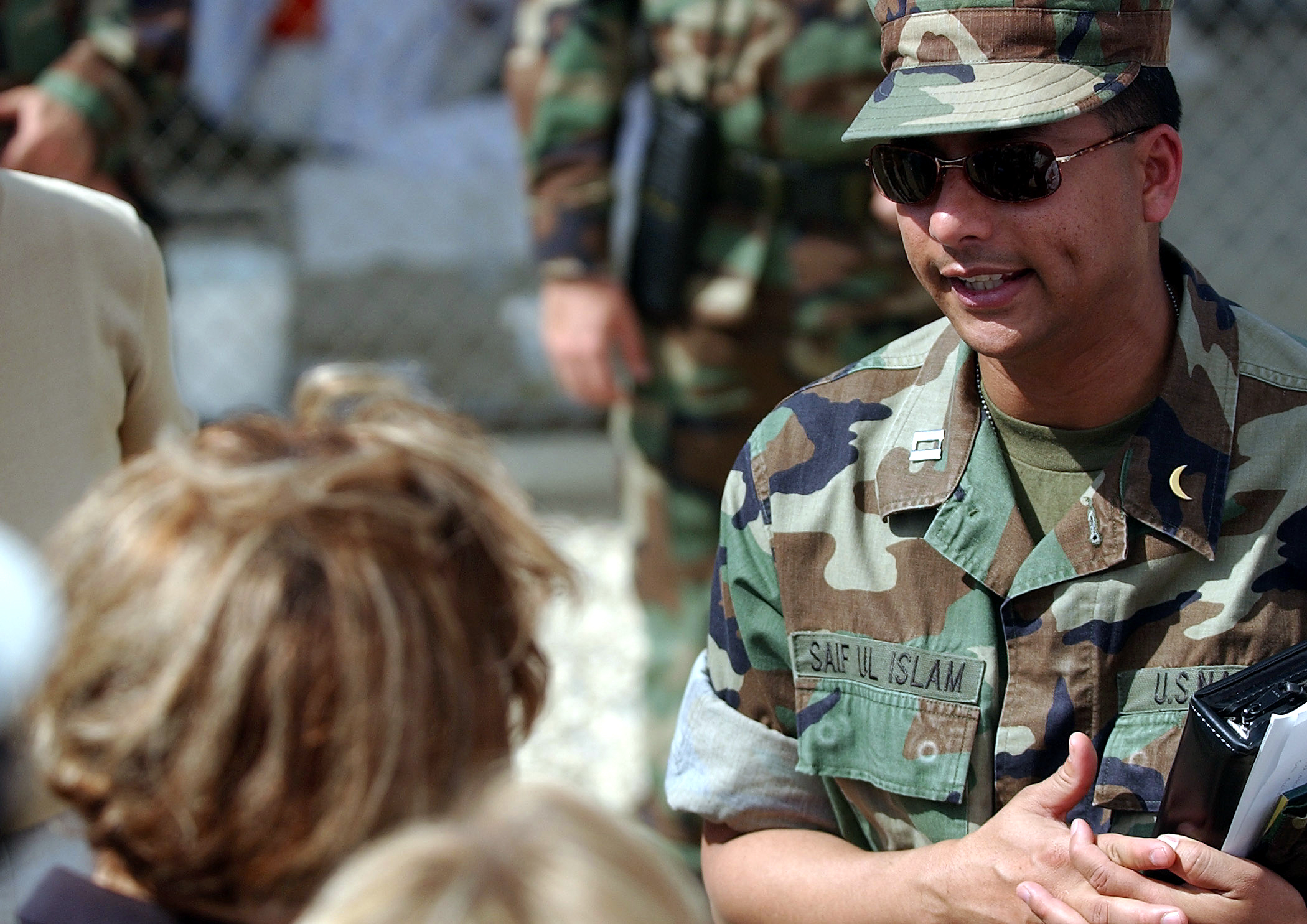 020125-N-6967M-501 Guantanamo Bay, Cuba (Jan. 25, 2002) -- U.S. Navy Lt. Abuhena Saif Ul Islam, a Muslim Chaplain, speaks with a congressional delegation touring Camp X-Ray. Islam leads prayers five times a day for al Qaida and Taliban detainees being held there during Operation Enduring Freedom. U.S. Navy photo by Photographer's Mate 1st Class Shane T. McCoy. (RELEASED)